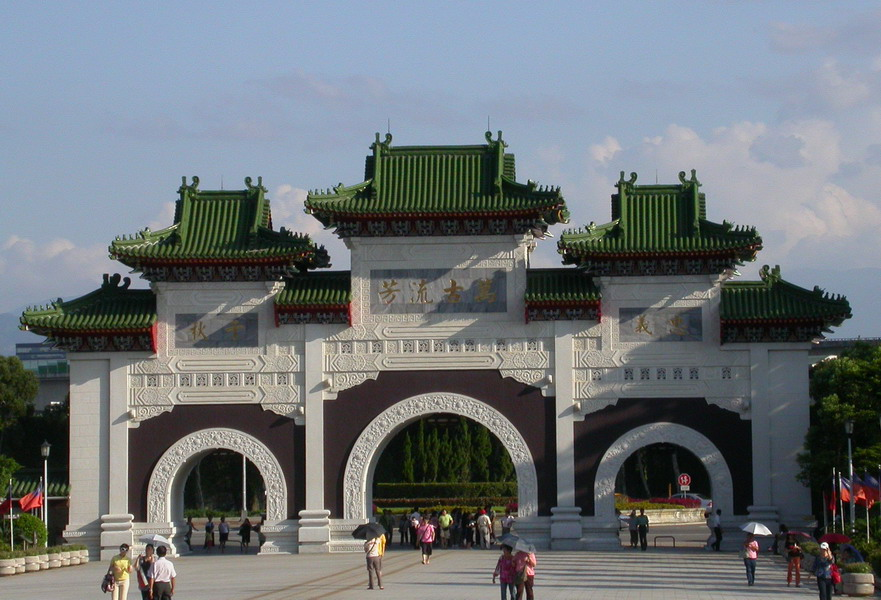 National Revolutionary Martyr's Shrine paifang